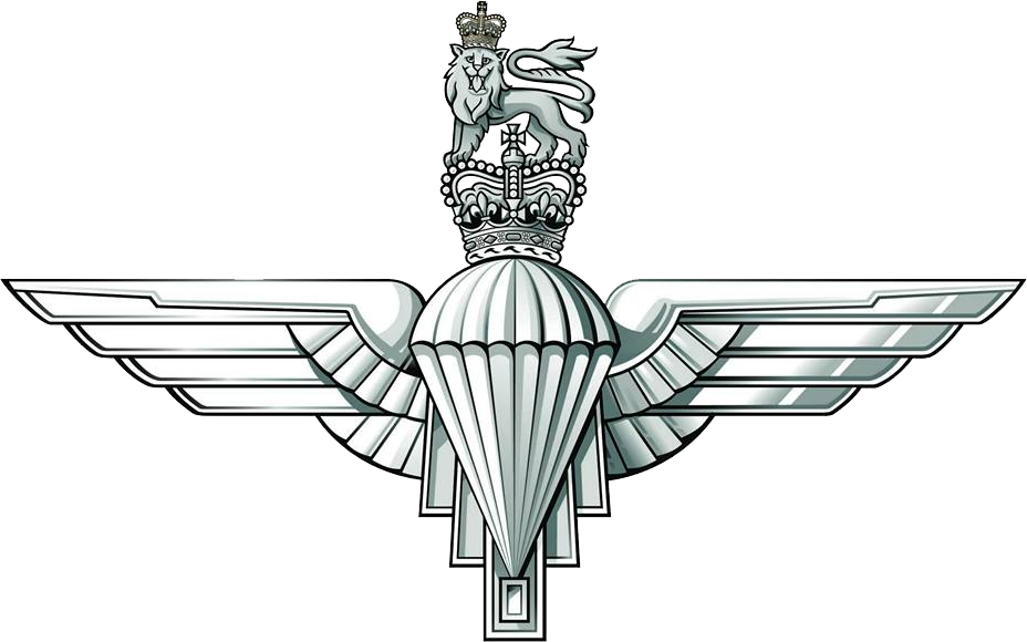 Parachute Regiment (United Kingdom) logo